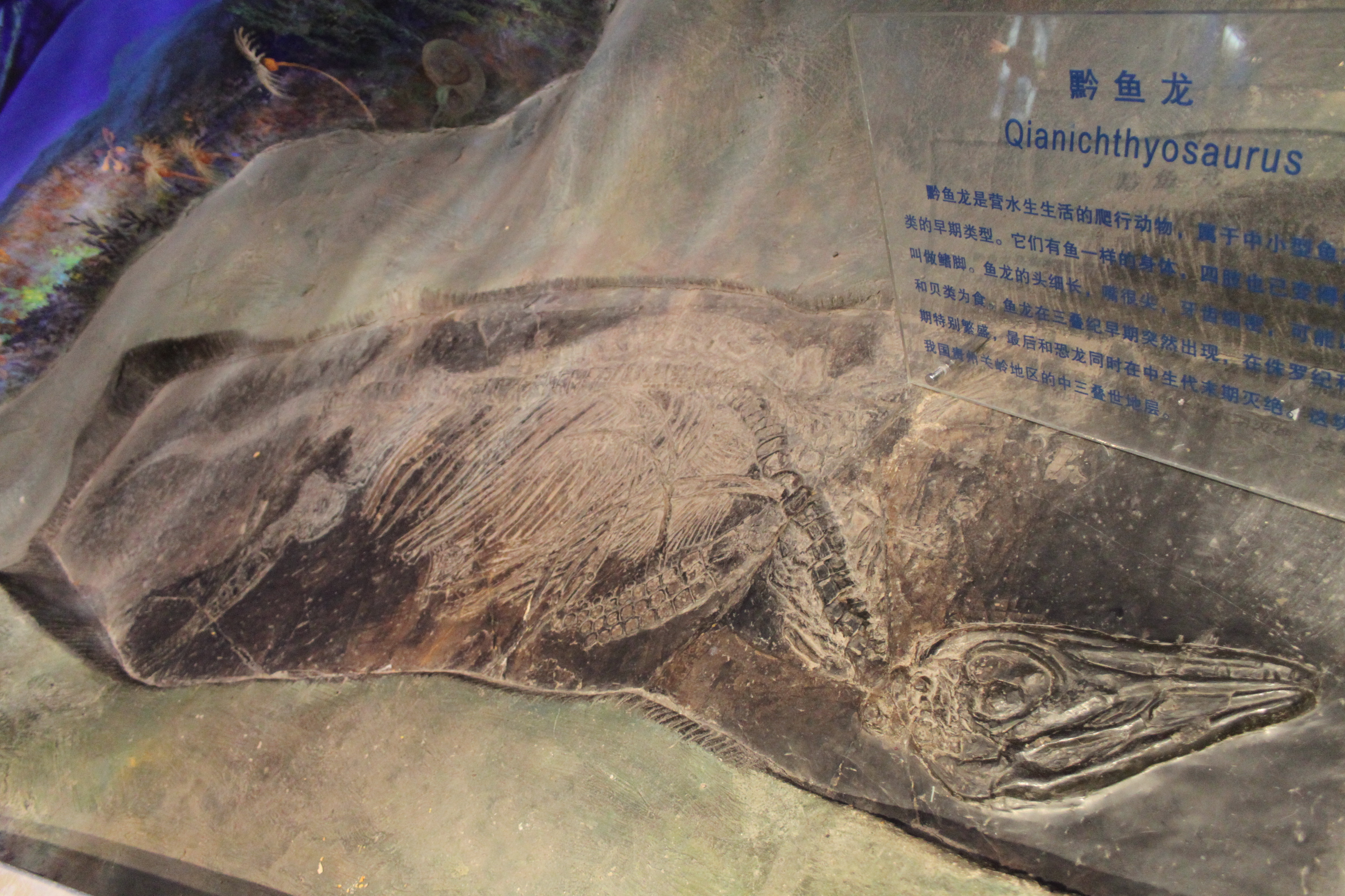 Beijing Natural History Museum. Complete indexed photo collection at .